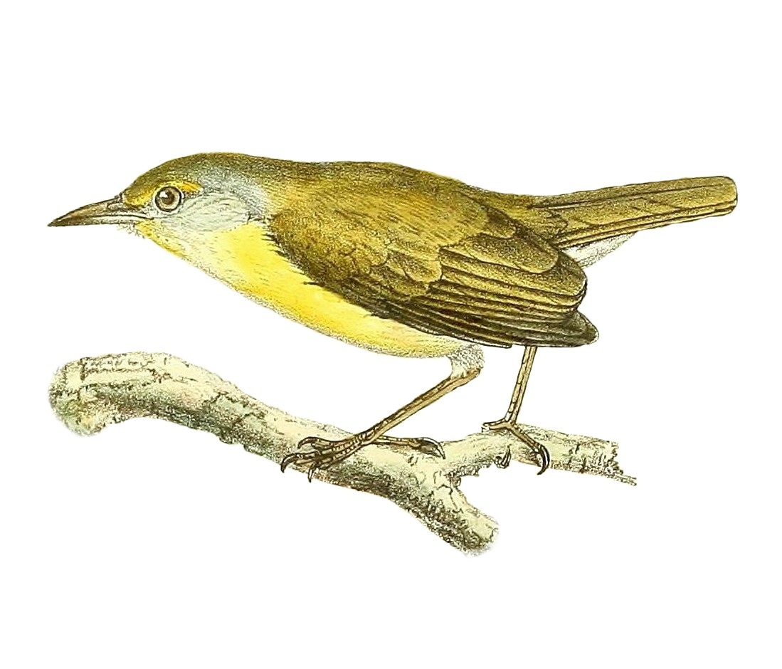 Eroessa tenella = Neomixis tenella (Common Jery)